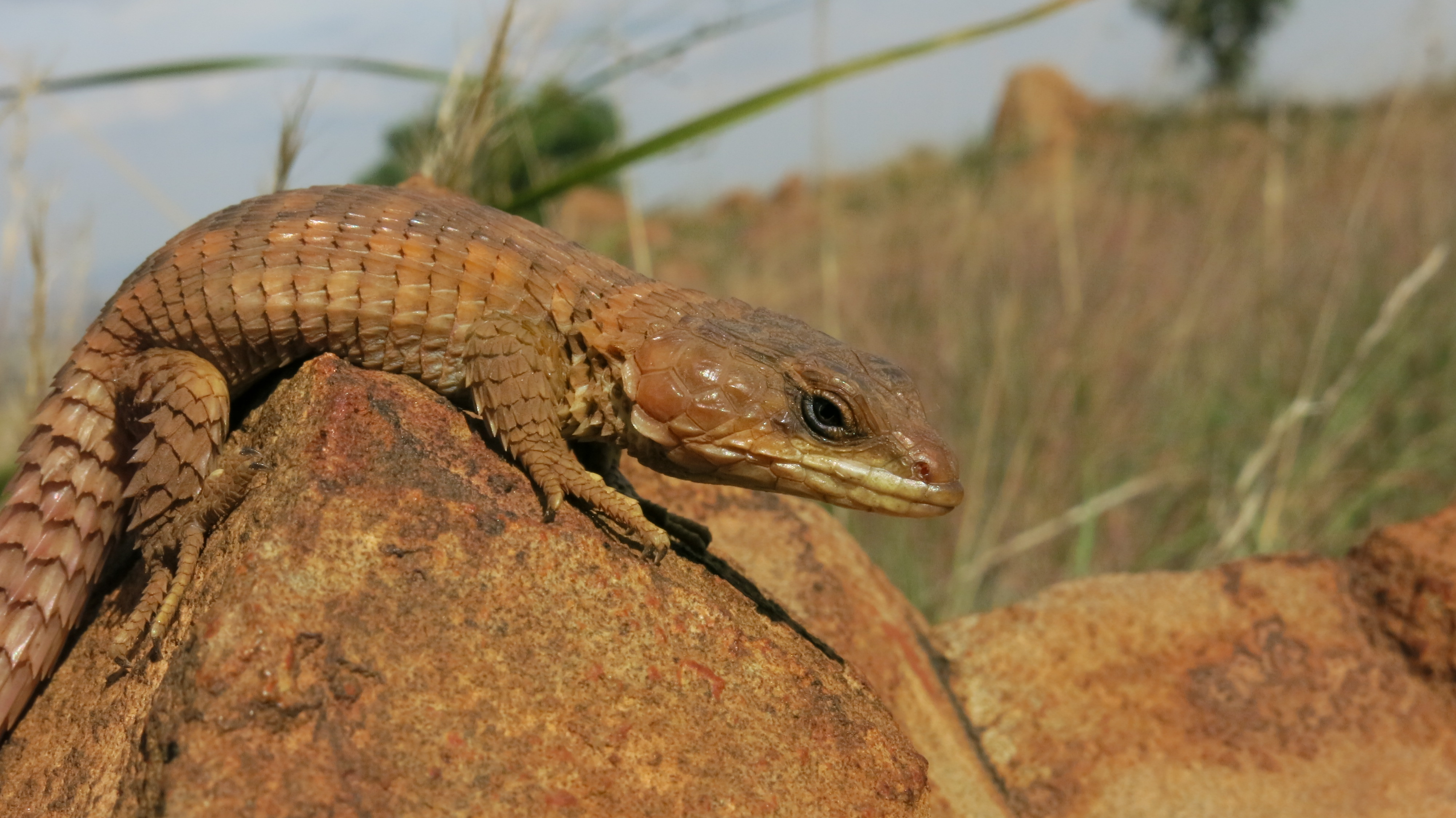 Transvaal Girdled Lizard, Klipriviersberg, Johannesburg, South Africa